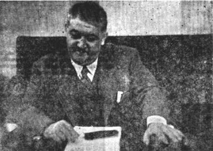 Juraj Šutej (1889–1976), Croatian politican